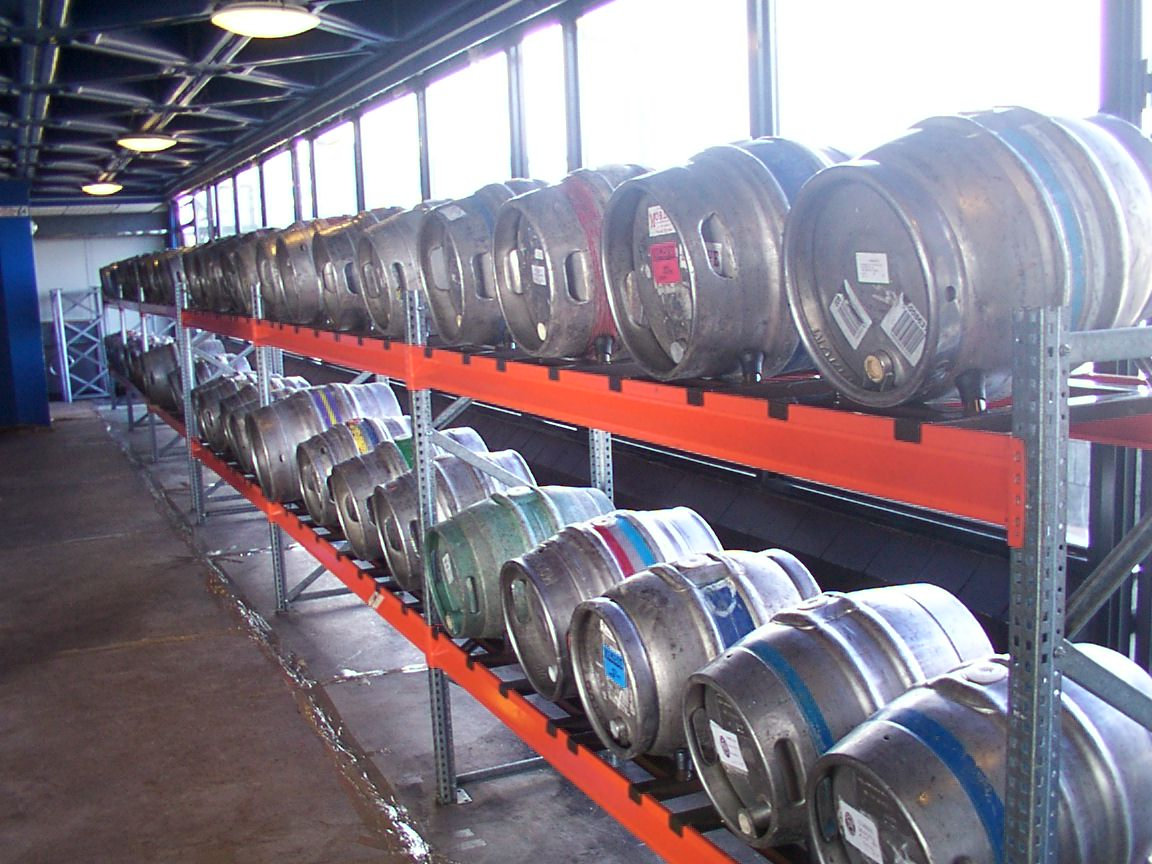 Untapped casks of real ale. Taken by me (Pete Verdon) at the 2002 Warwick University Real Ale Festival and hereby released into the public domain.